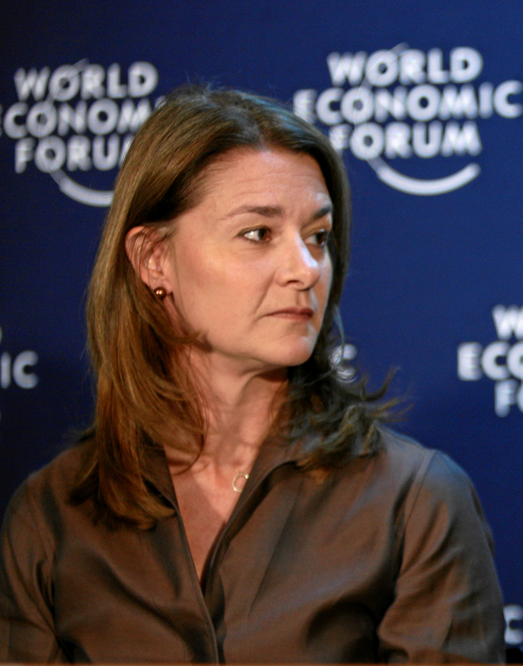 Melinda Gates in World Economic Forum (Cropped version)